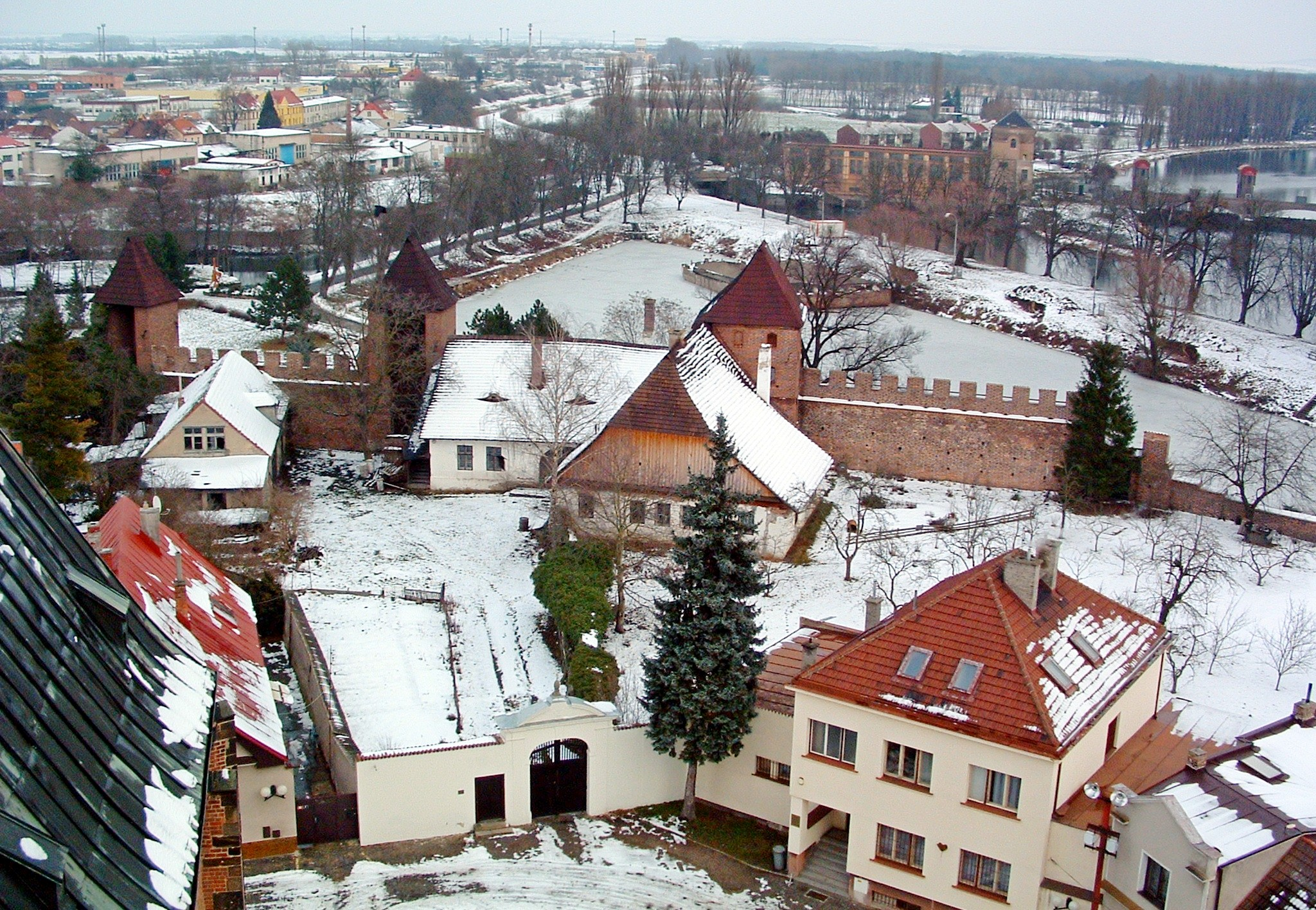 Nymburk, a view of town walls and old rectory